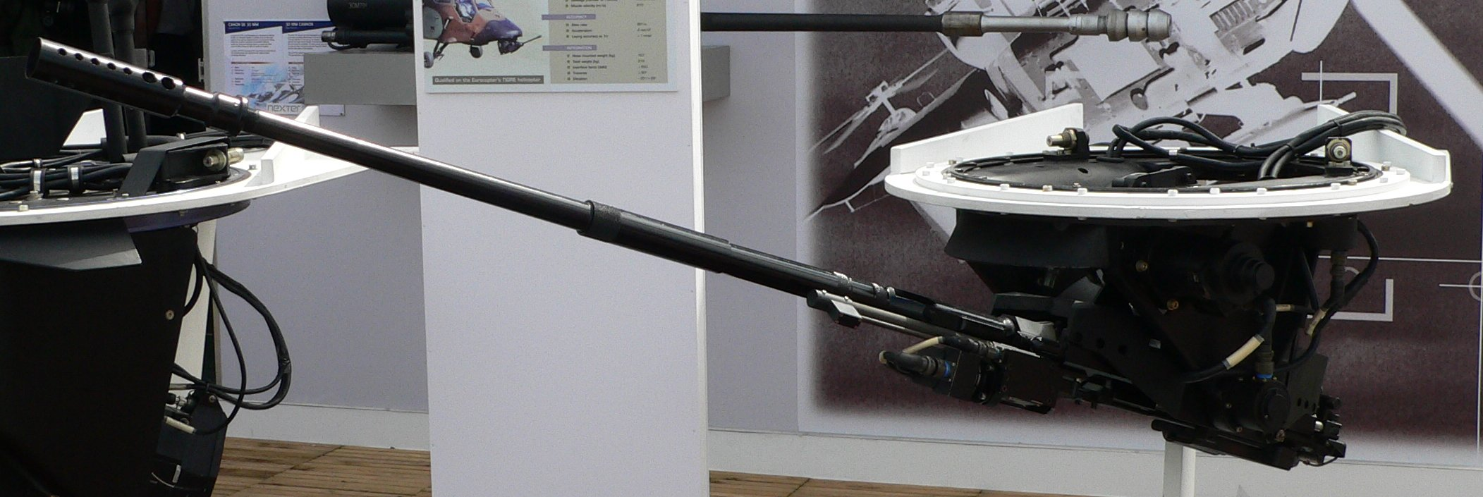 Nexter THL-30 helicopter gun turret